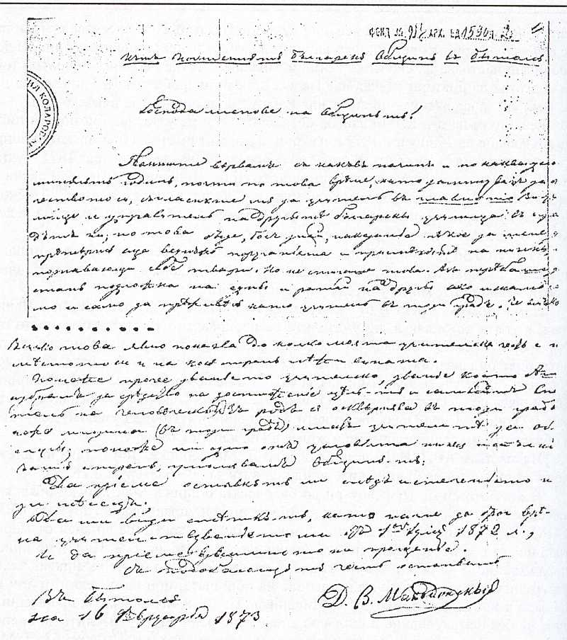 Letter from Dimitar Makedoniski to the Bitolya Bulgarian Municipality, 16 February 1873